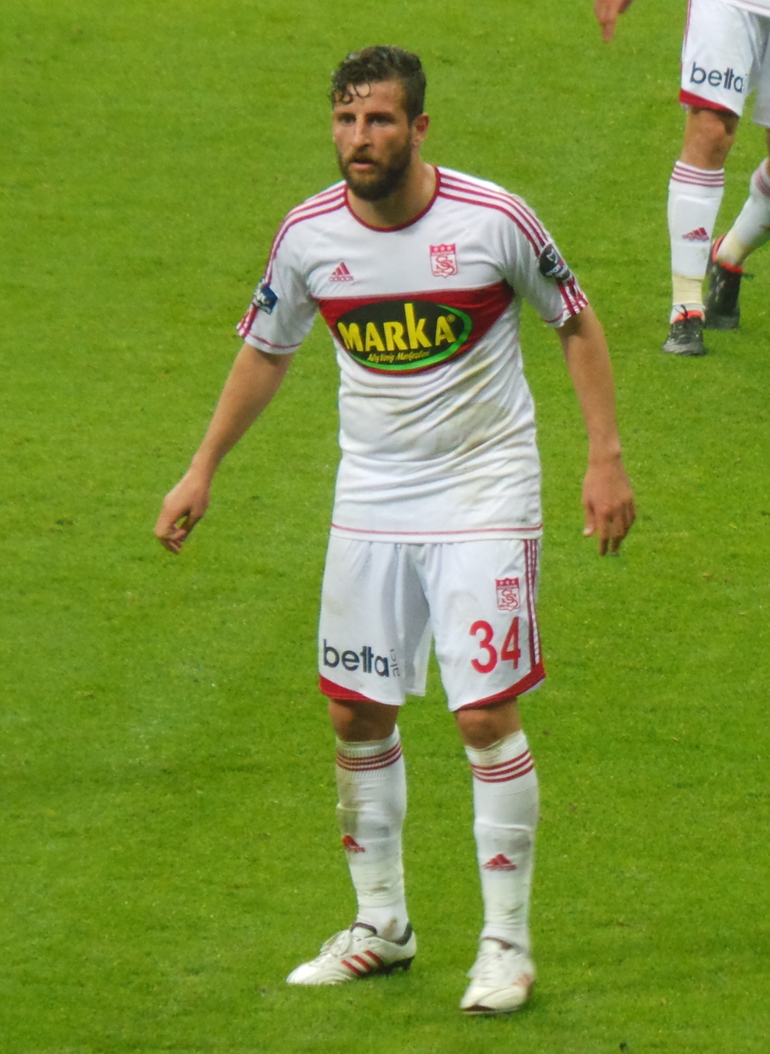 Eren Aydın with Sivasspor